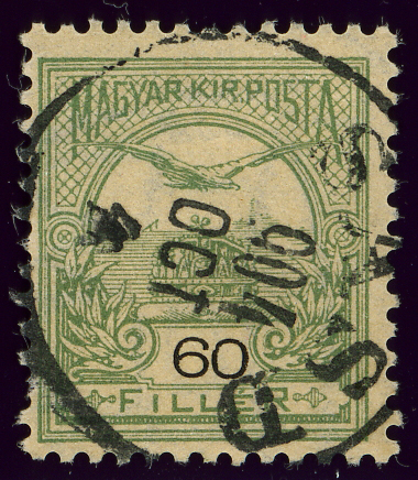 Kingdom of Hungary 60 fillér grey-green stamp (SG117), issue 1900, cancelled at SÁSD (Baranya county) in 1904, Hungary.